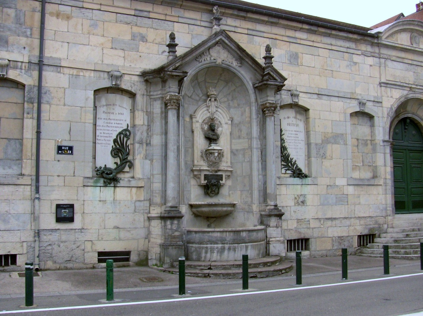 Foutain of Victor Hugo School, located in Besançon (Doubs, France)